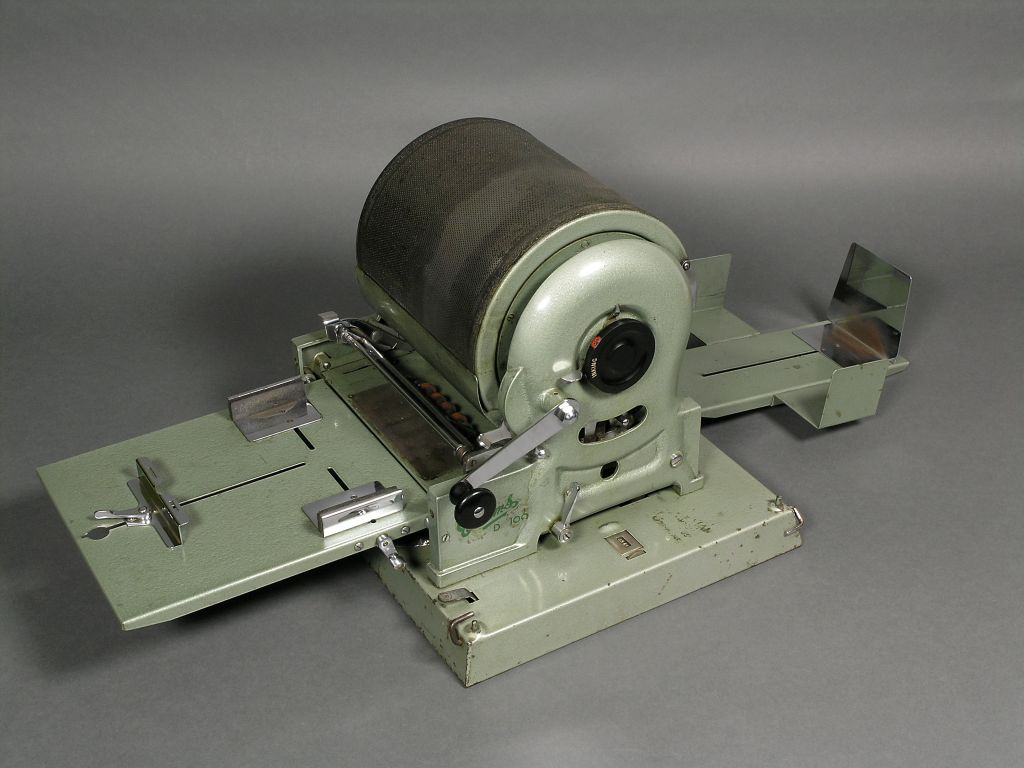 Ellams hand powered rotary duplicator. Steel, painted greem. Circular drum with white metal alloy and black plastic handle on one side and black plastic dial. Over the drum is a steel mesh cover. On one side is a flat bed paper feeder and on the other is a paper catcher with 3 restraining arm. Donated by the Institute of Plumbing. Editing Undertaken: Levels, Unsharp Mask